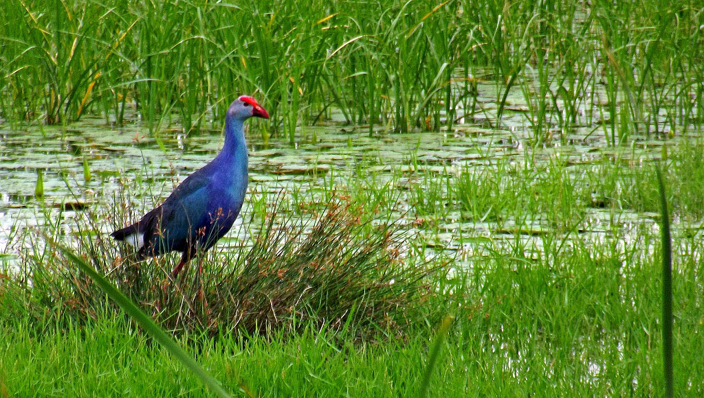 Purple Swamphen/Moorhen in Pallikaranai wetland, Chennai